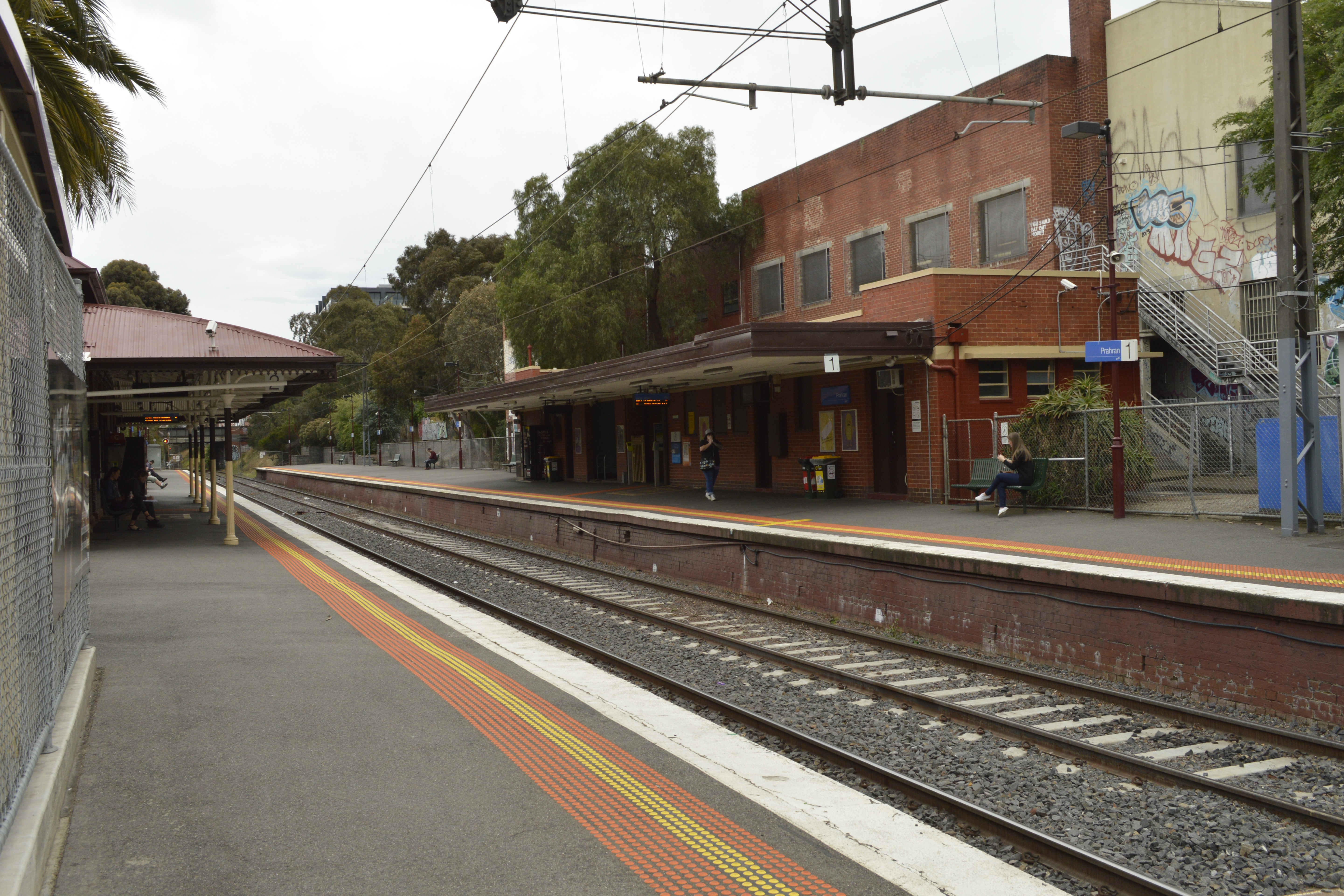 View from platform 2 looking south